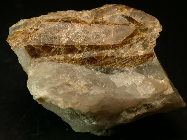 Titanite, a 4.6 by 3.2 cms specimen on matrix - Locality: Vesper Peak, Sultan Basin, Sultan District, Snohomish County, Washington, USA